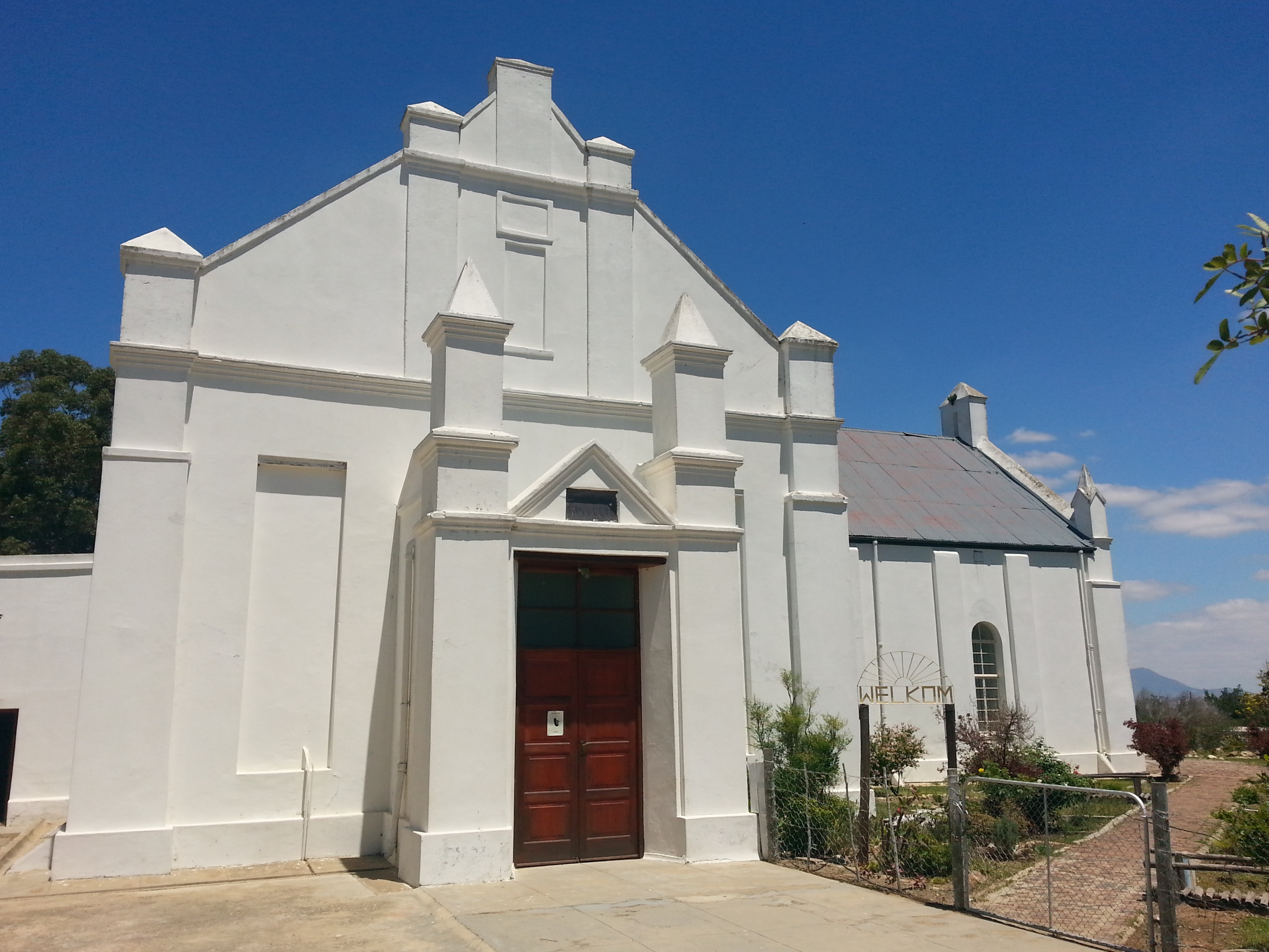 Mission Church, Saron, Witzenberg Municipality, Western Cape province South Africa This media shows a South African Protected Site with SAHRA file reference HM\WINELANDS\WITZENBERG \SARON.